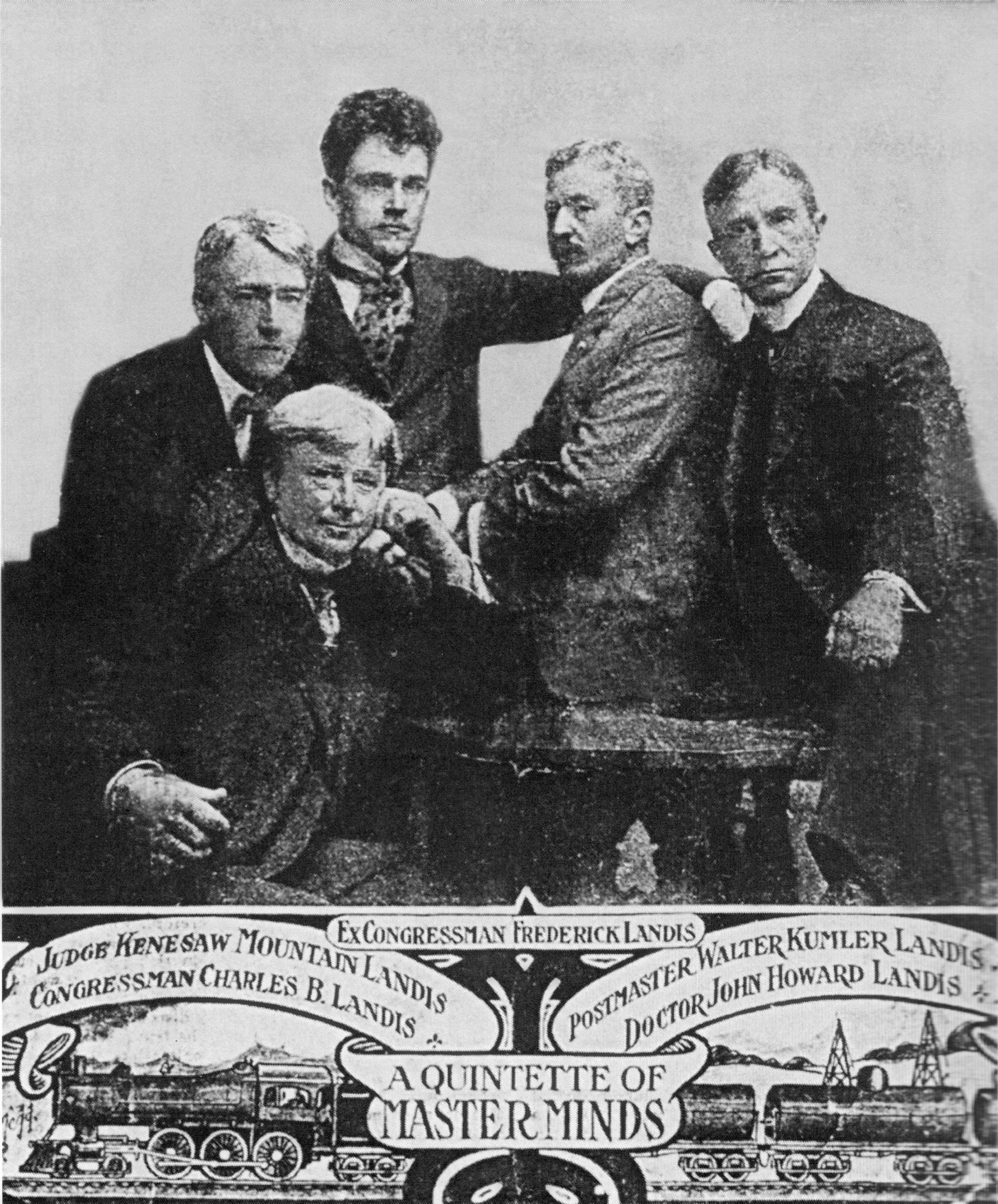 The five Landis brothers: two of Kenesaw Landis's brothers served in Congress.